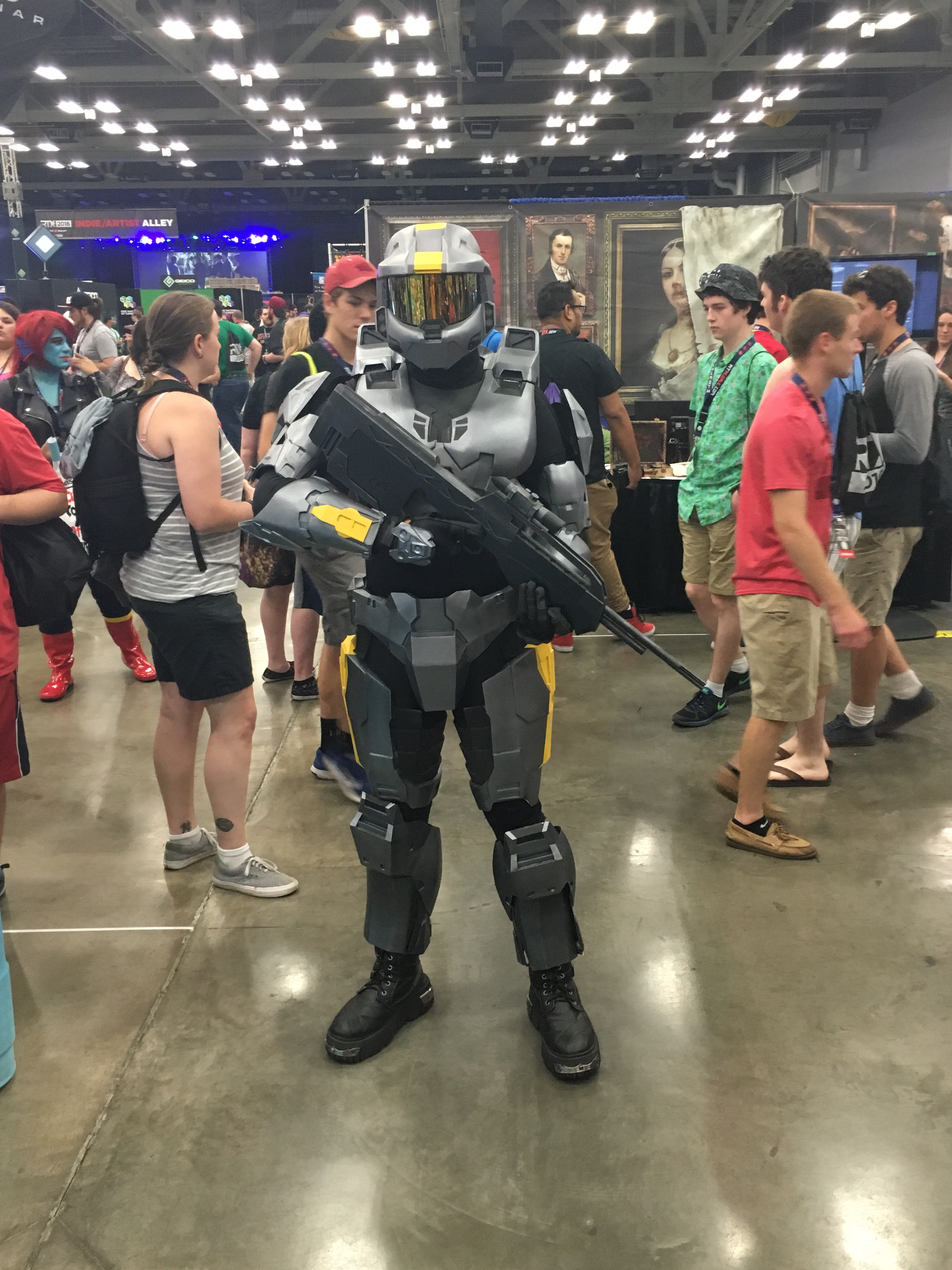 Agent Washington cosplayer Taken at RTX 2016.